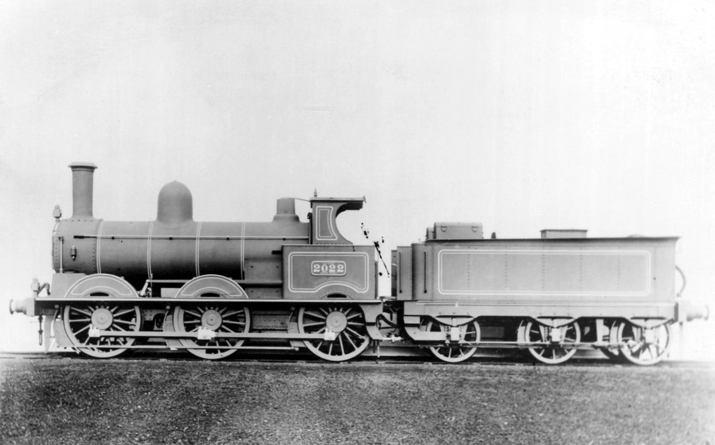 Photograph of LNWR engine No. 2022 Special DX